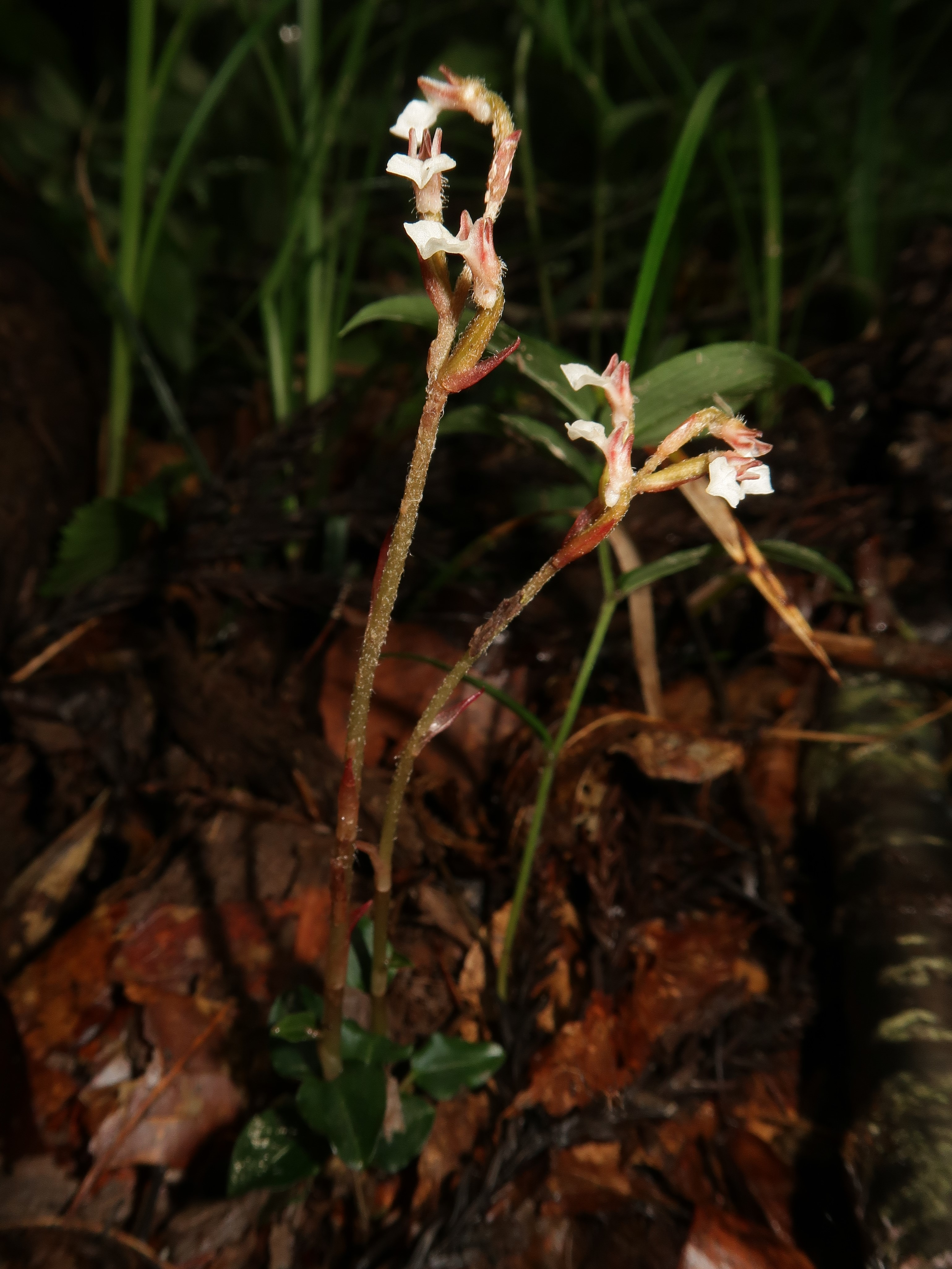 Kuhlhasseltia nakaiana, Nouth area, Ibaraki pref., Japan